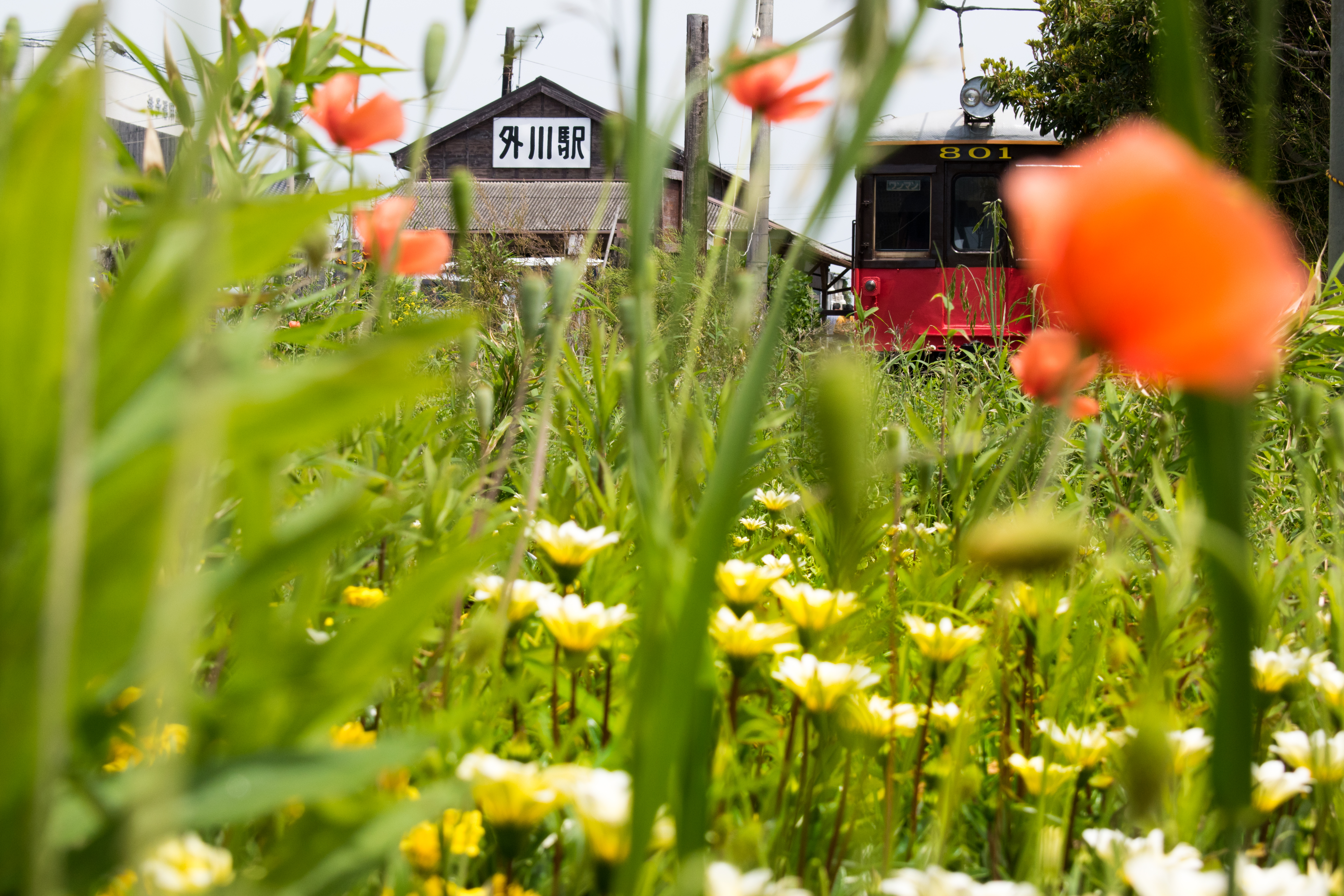 Tokawa Station of the Chōshi Electric Railway Line in Chōshi City, Chiba Prefecture, Japan.